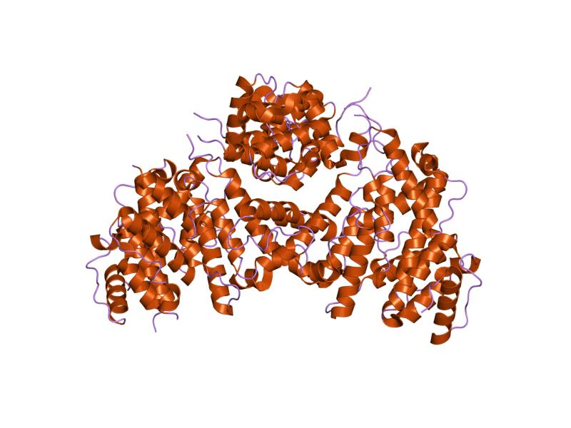 Cartoon representation of the molecular structure of protein registered with 1pxy code.